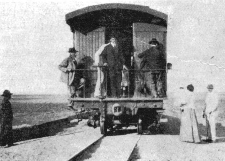 A group of passengers on the last wagon of a Ferrocarril Midland's passenger train. They are stopped where the Villa Fiorito station would raise years later.